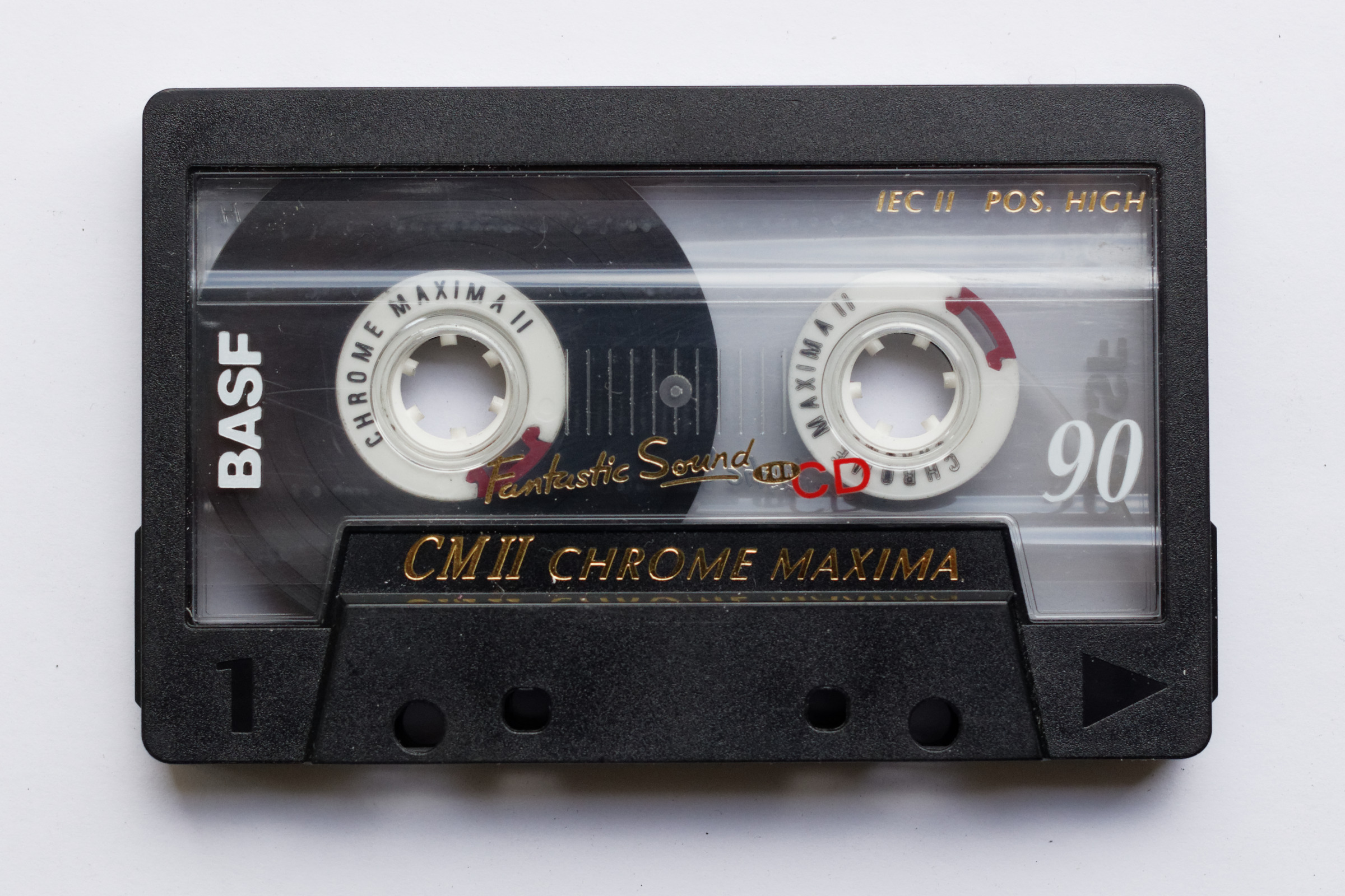 BASF Chrome Maxima II 1995 cassette ('Fantastic Sound' tag)